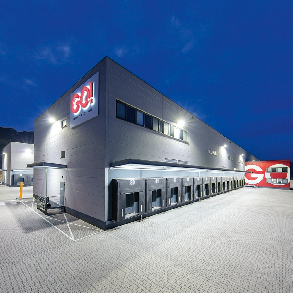 Hub of GO! Express & Logistics in Niederaula, Hesse, Germany